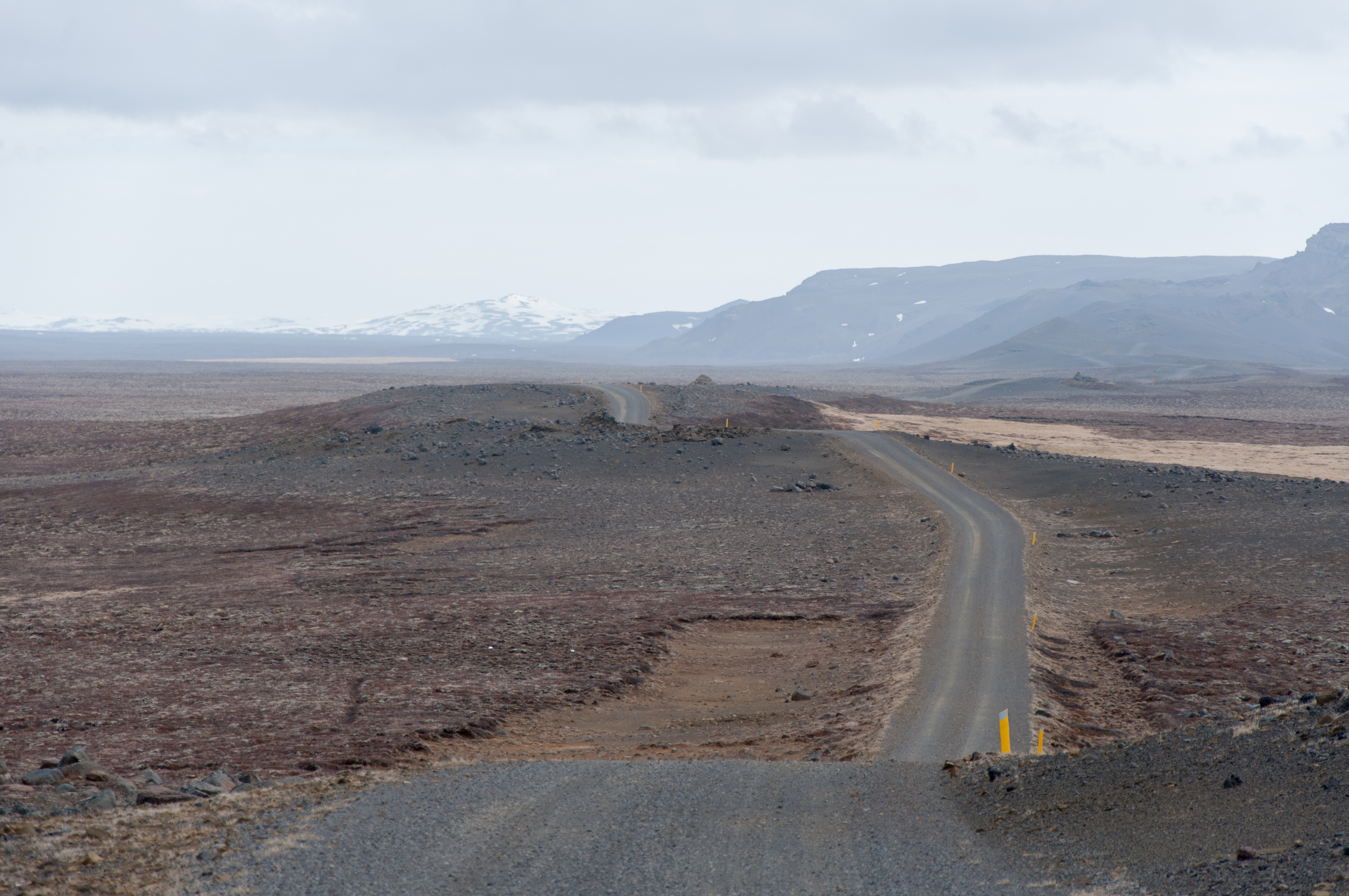 Iceland, Impressions along road 870 in the North of Iceland